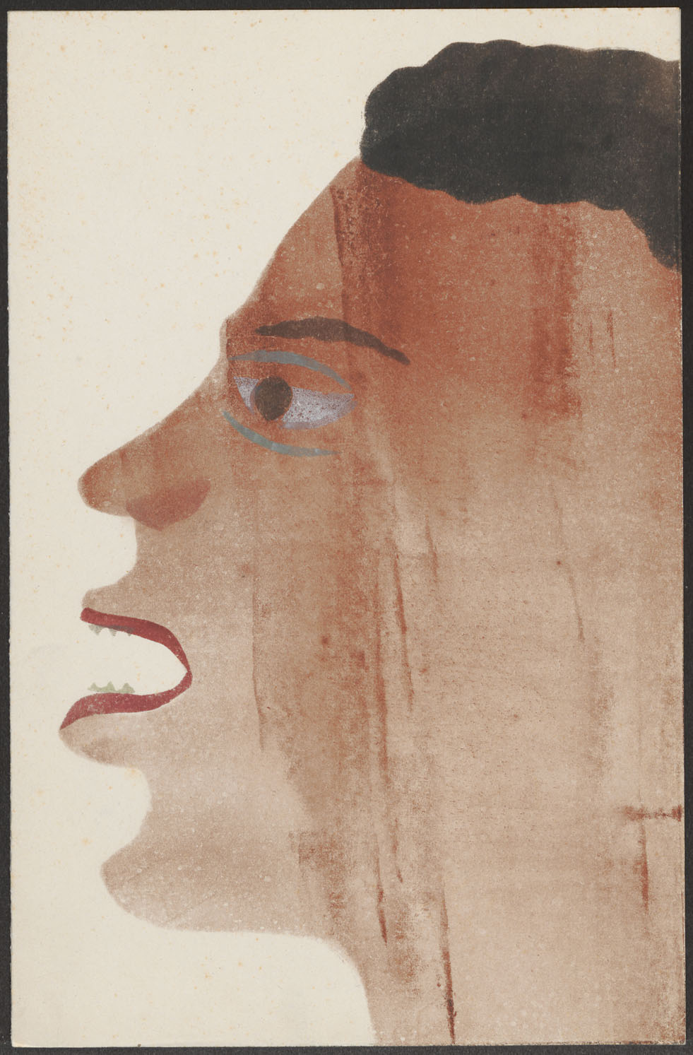 Cover of publication Paul Robeson zingt by H. Marsman (1942). Design by H.N. Werkman. Collectie Universitaire Bibliotheken Leiden, Maatschappij der Nederlandse Letterkunde, [DEJONG 644]